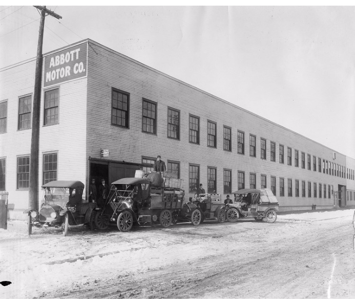 7.5x9.5 black and white photograph of the Abbott Motor Company showing a truck and three automobiles next to the building